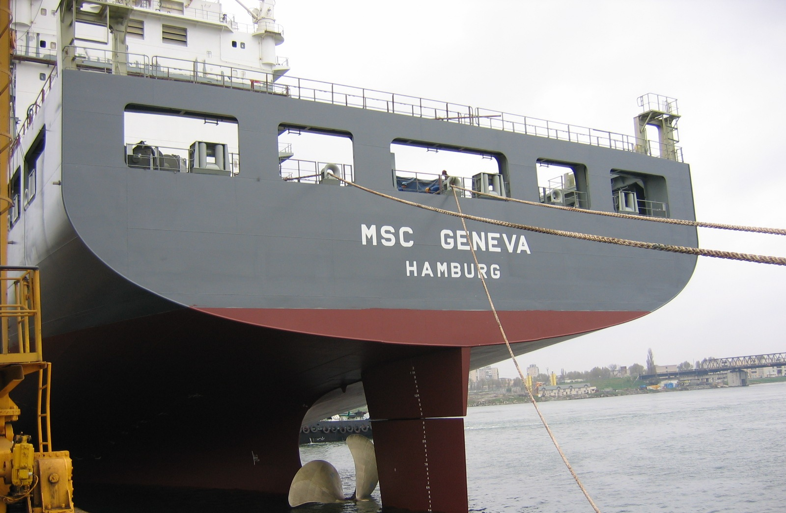 Transom of MSC Geneva at its building berth